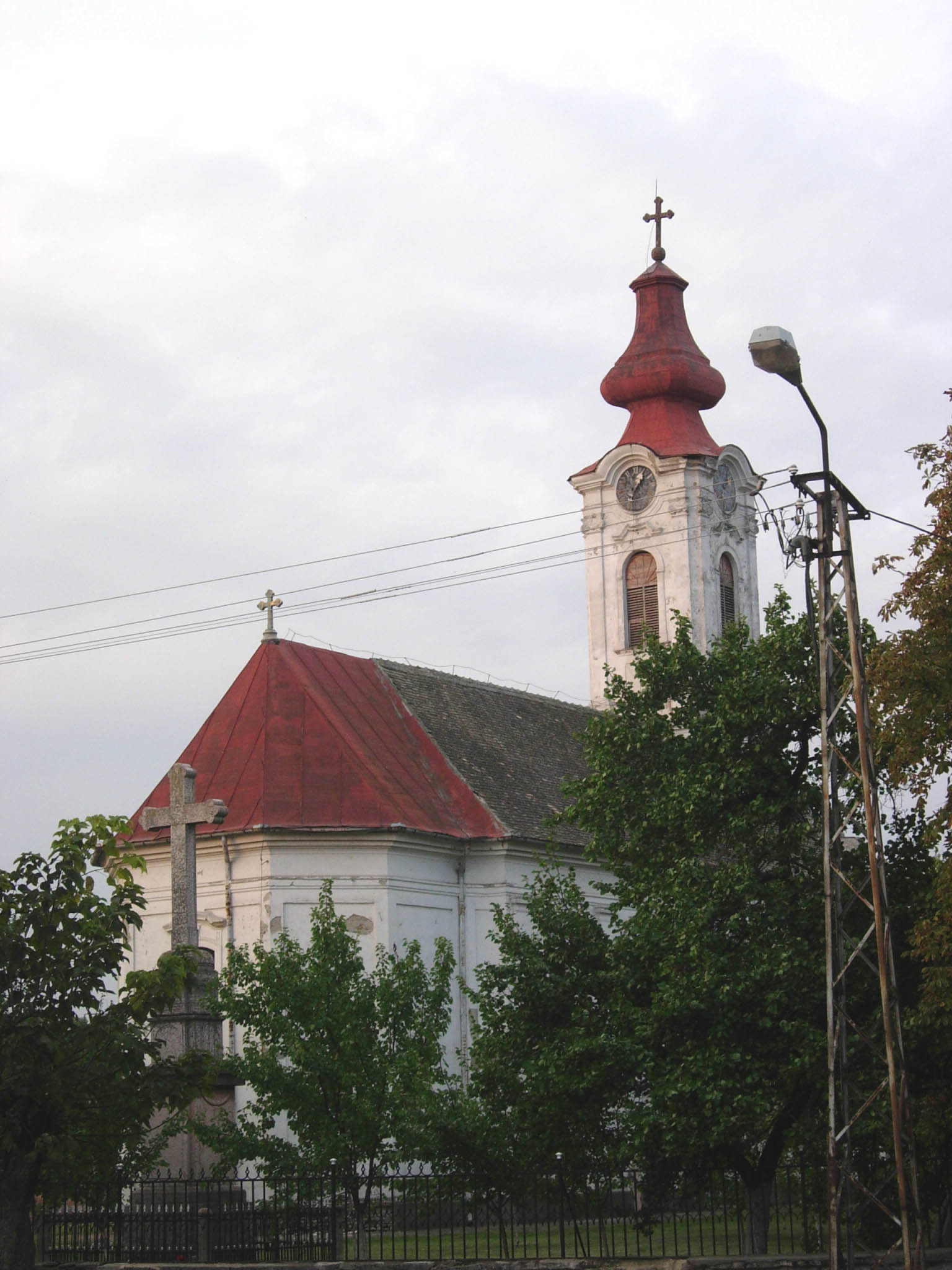 The Orthodox church in Novi Bečej.